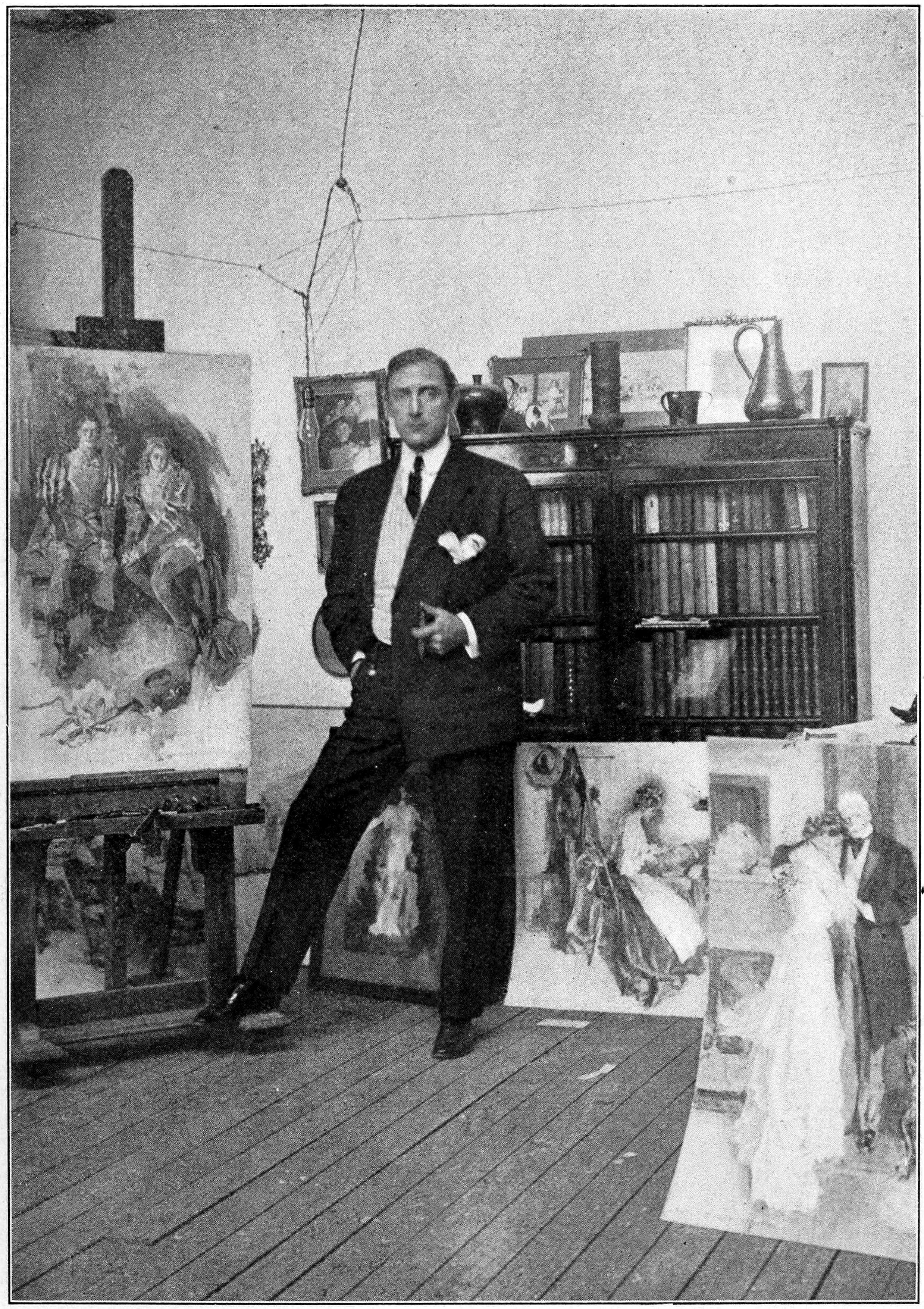 Howard Chandler Christy